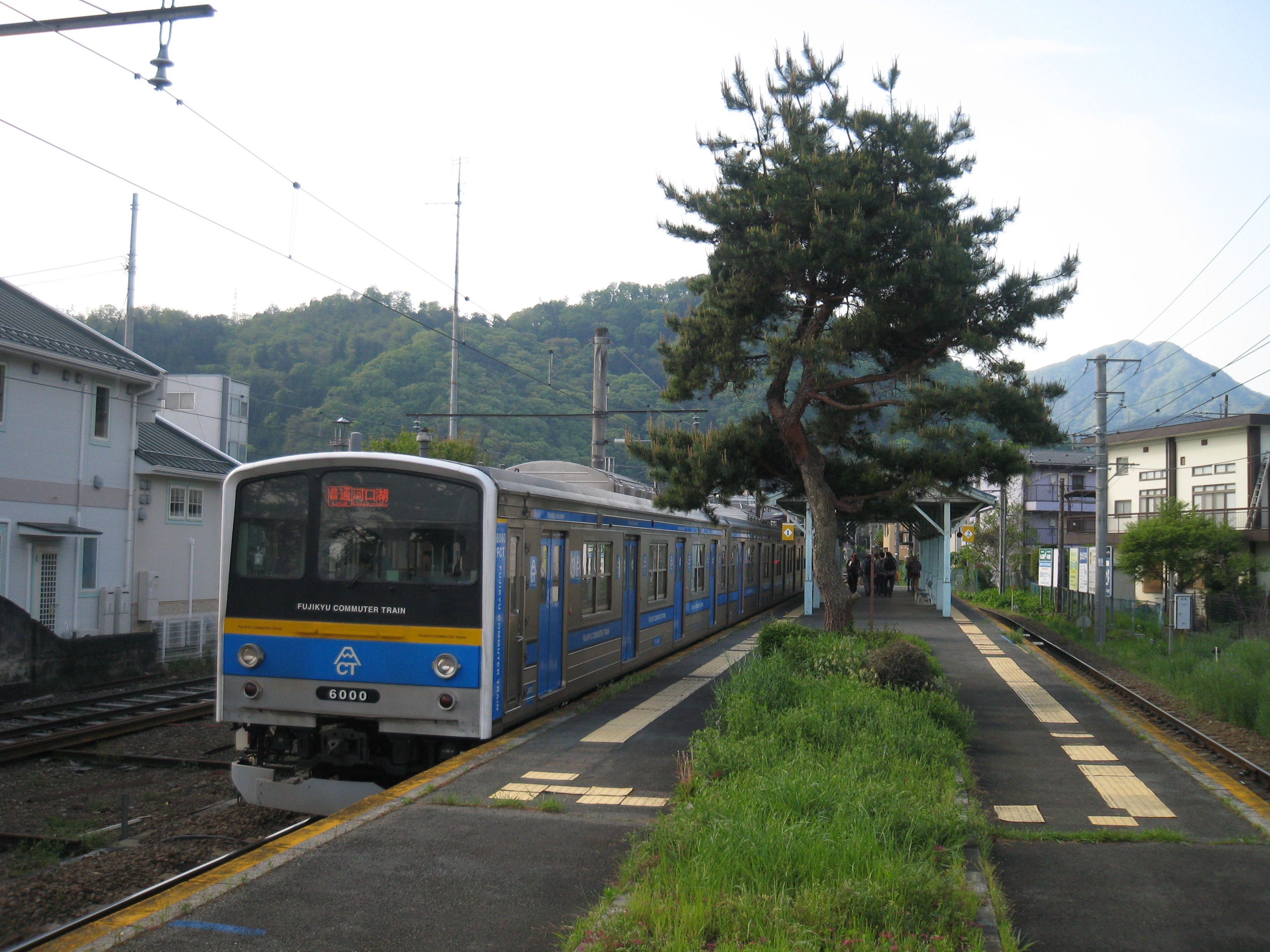 Tsuru-shi station (Fuji Kyuko)